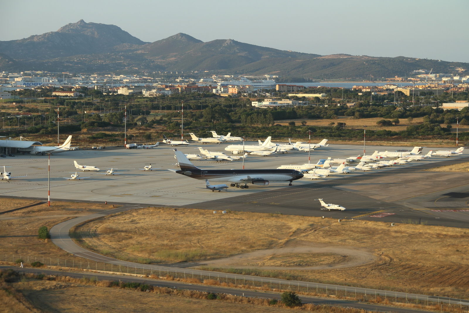 Olbia Airport during high season